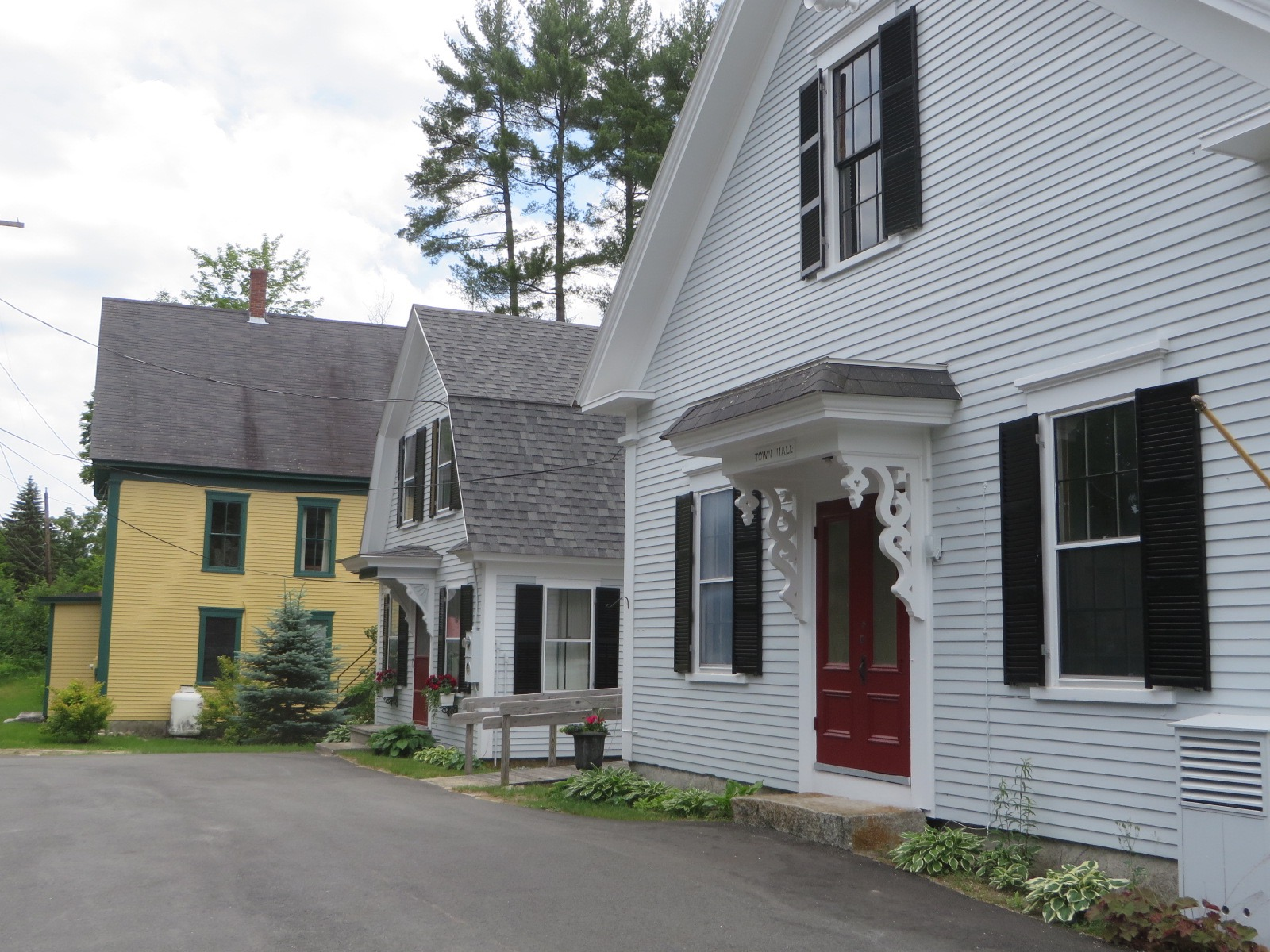 Village center, South Newbury. June 2015.